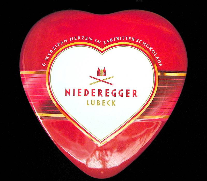 Marzipan heart shaped packing.